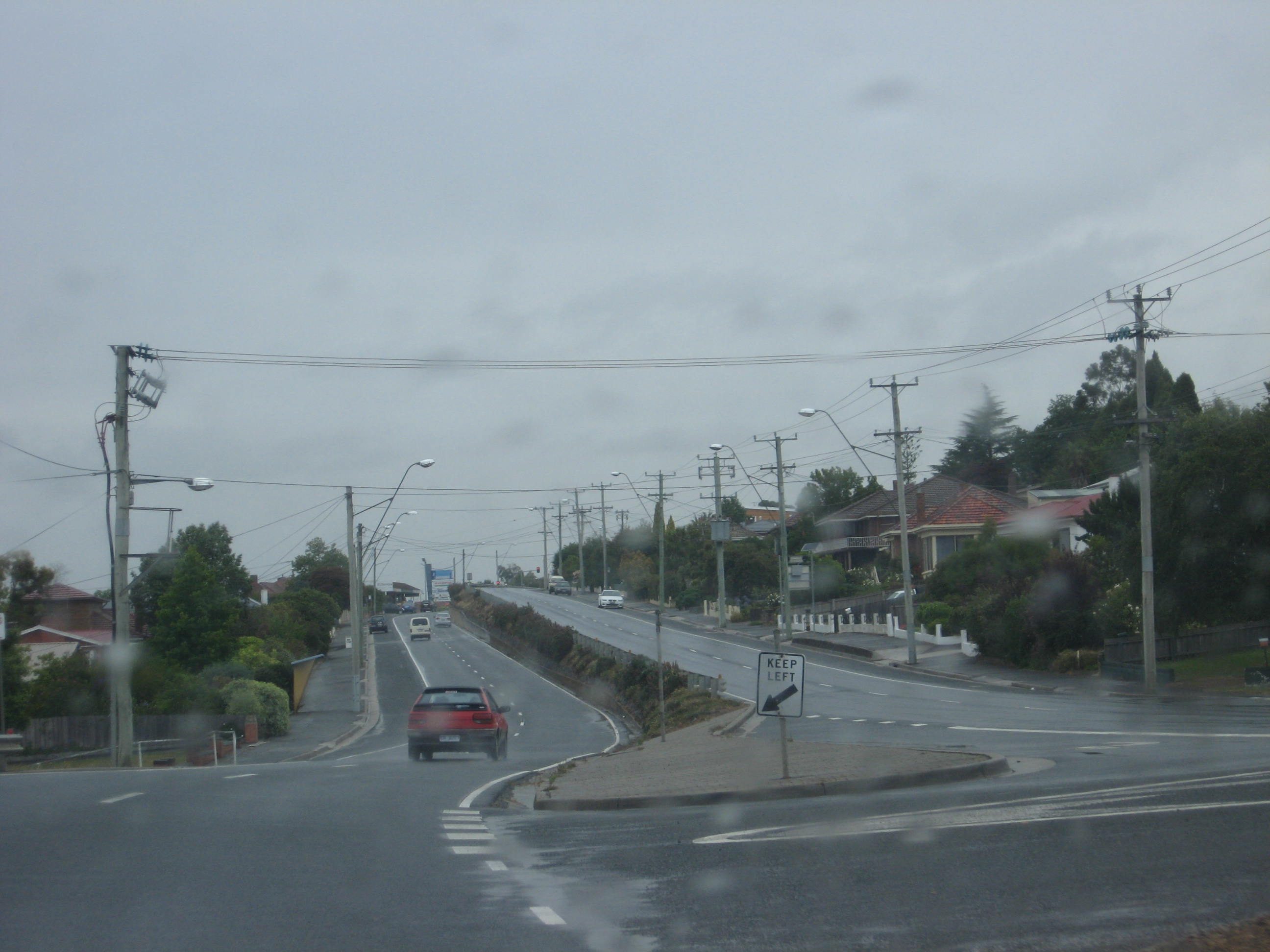 West Tamar Highway in the Launceston suburb of Riverside